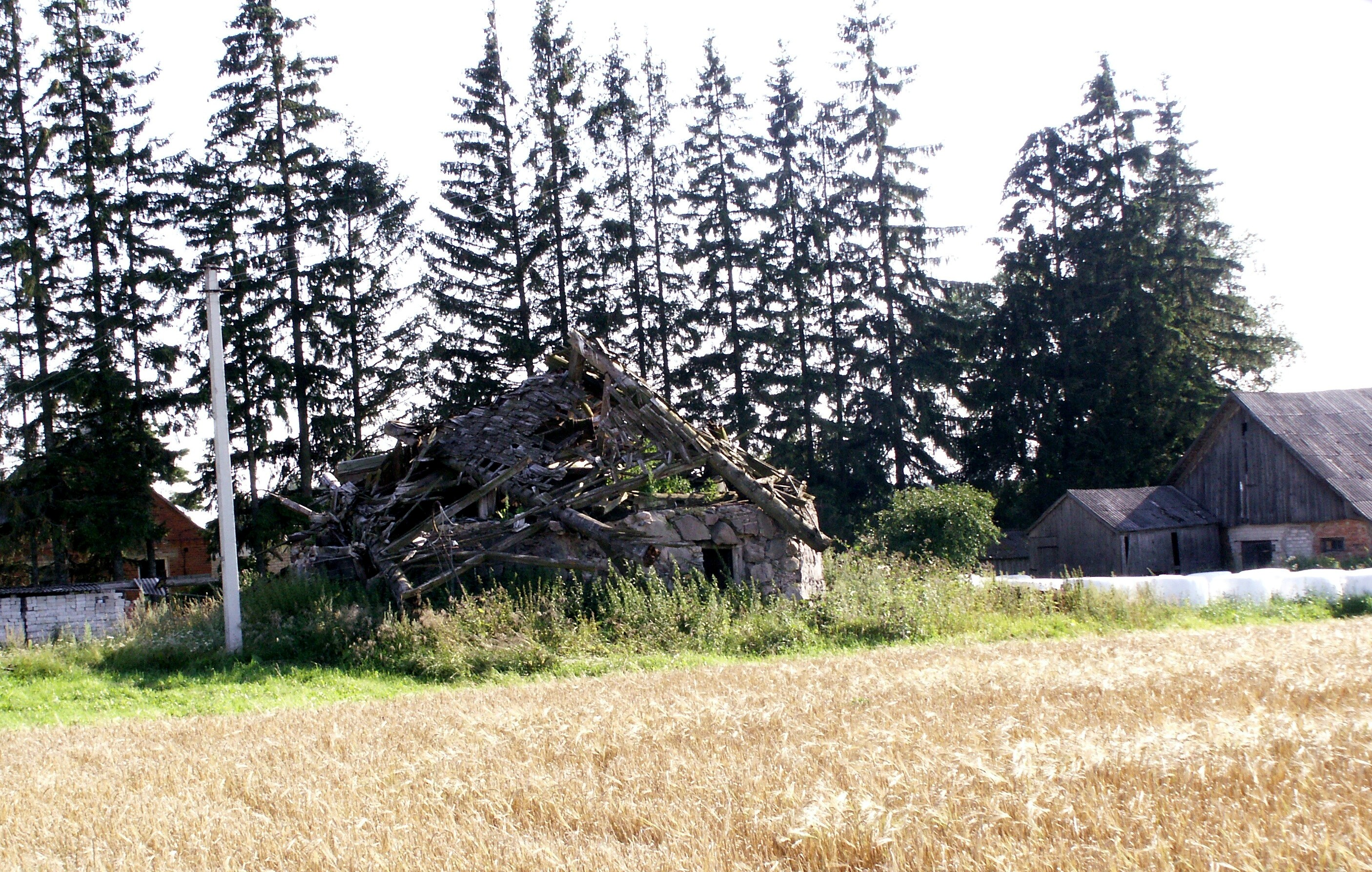 Destroyed windmill in Nastopiškis, Biržai district, Lithuania